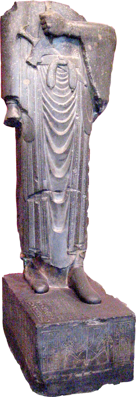 Statue of Darius. The statue was made upon the orders of Darius to be placed in Heliopolis (Atum's temple) to show the man who sees it that "Persian man took Egypt". Xerxes brought it back to Susa after having broken a riot in Egypt.